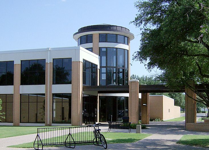 Student Center at Angelo State University